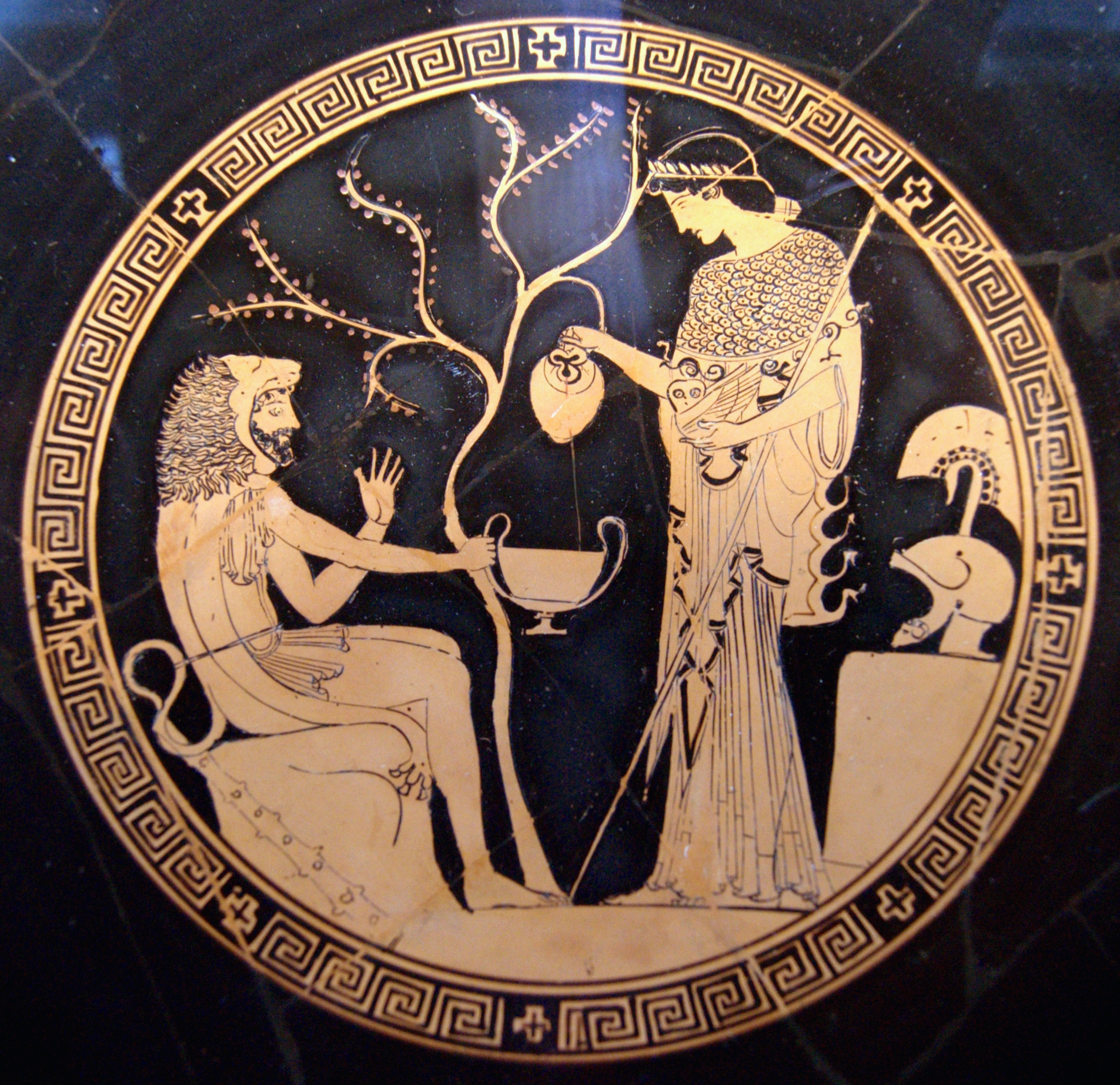 Heracles and Athena. Tondo of an Attic red-figure kylix, 480–470 BC. From Vulci.